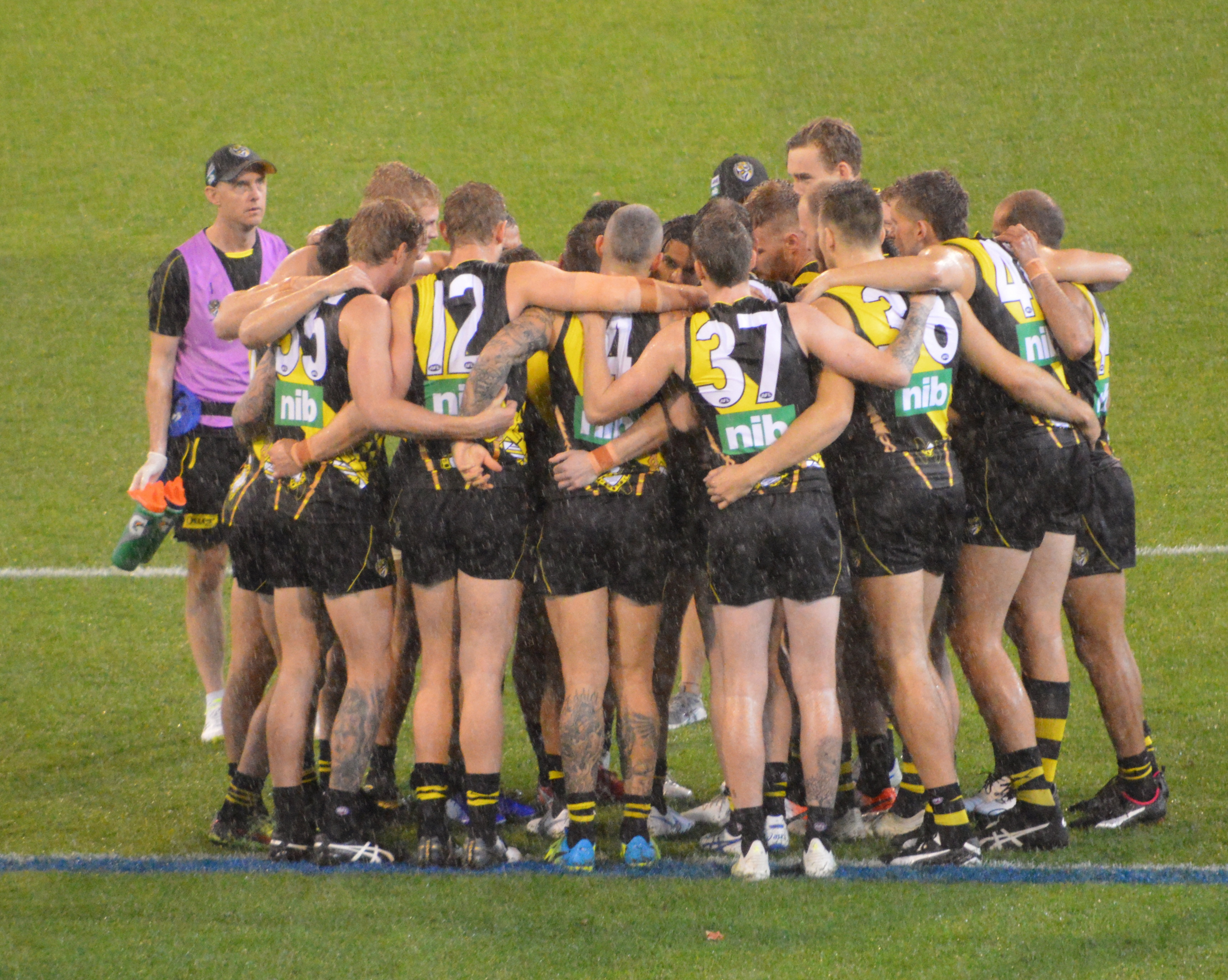 Richmond in the round 10 Dreamtime at the 'G AFL match against Essendon at the MCG on 25 May 2019.